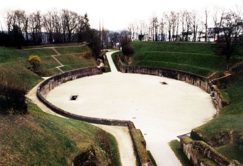 Trier, Amphitheater